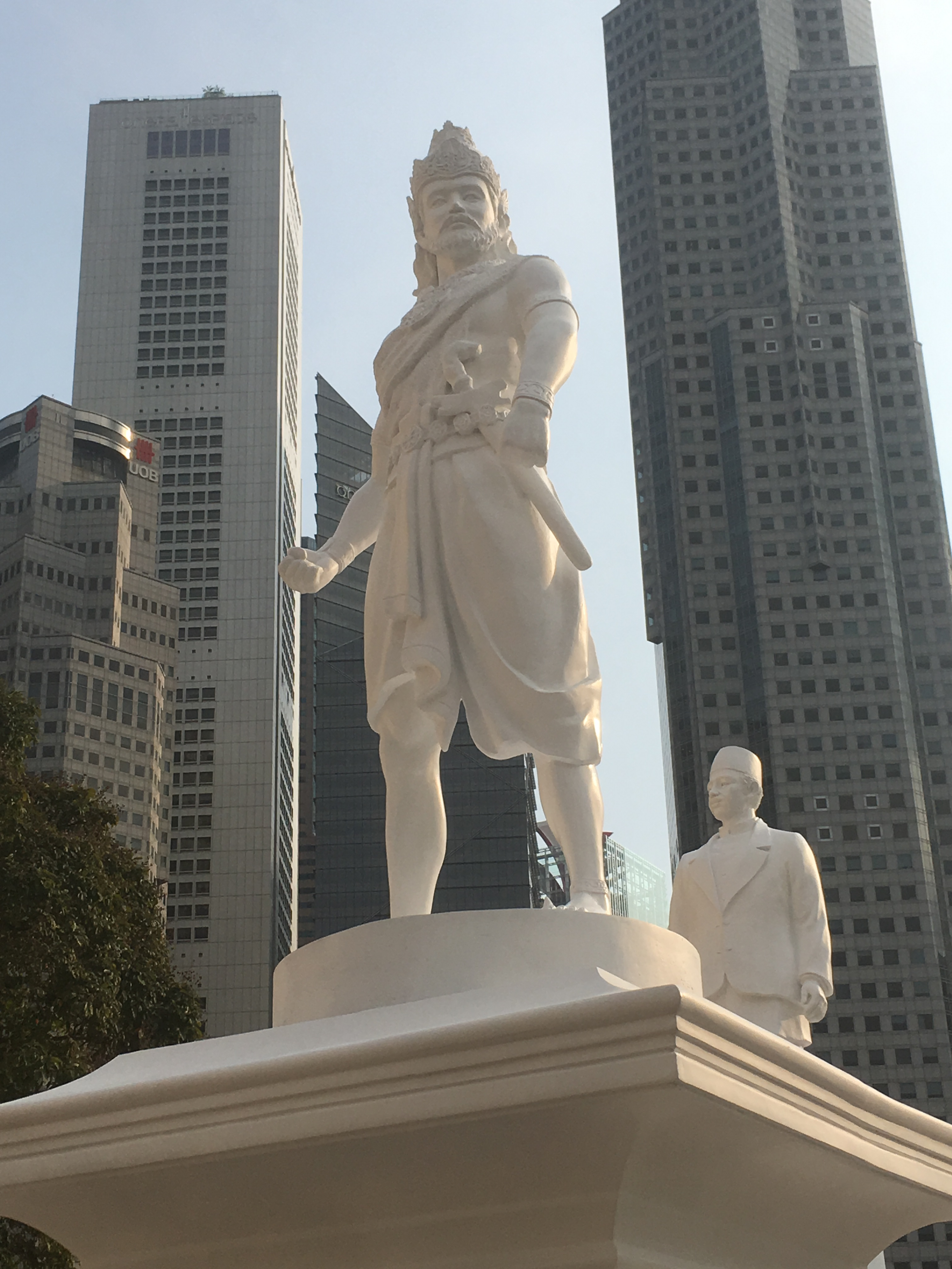 Statue of Sang Nila Utama, a pseudo-legendary Prince from Palembang who supposedly founded the Kingdom of Singapura in 1299, erected at the Raffles Landing Site as part of events commemorating the bicentennial of Singapore's colonisation by the British East India Company at the hands of Sir Sir Stamford Raffles. Full-length front view, with office towers at Raffles Place in the background, along with a statue (also erected as part of the bicentennial commemorations) of Munshi Abdullah, a Malay linguist in the employ of Sir Stamford Raffles who would come to be known as the "Father of Modern Malay Literature".